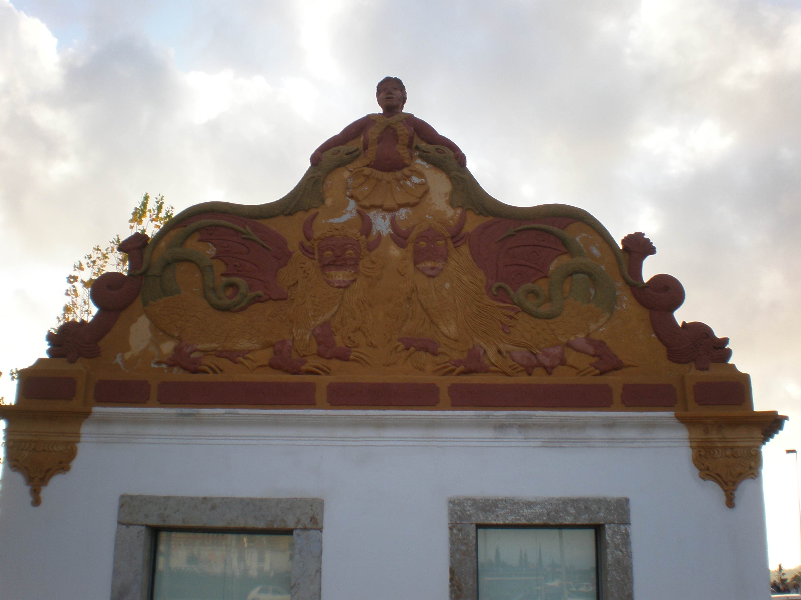 Figures' House, Faro, Portugal